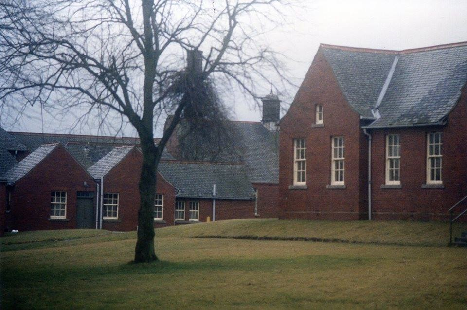 An image of Stoneyetts Hospital (also Stoneyetts Certified Institution for Mental Defectives) in 1992.